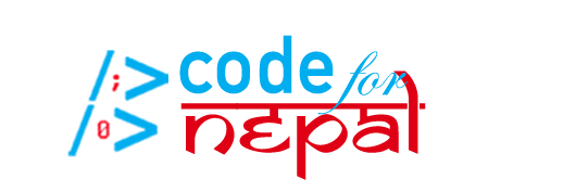 This is the official logo of organization Code for Nepal